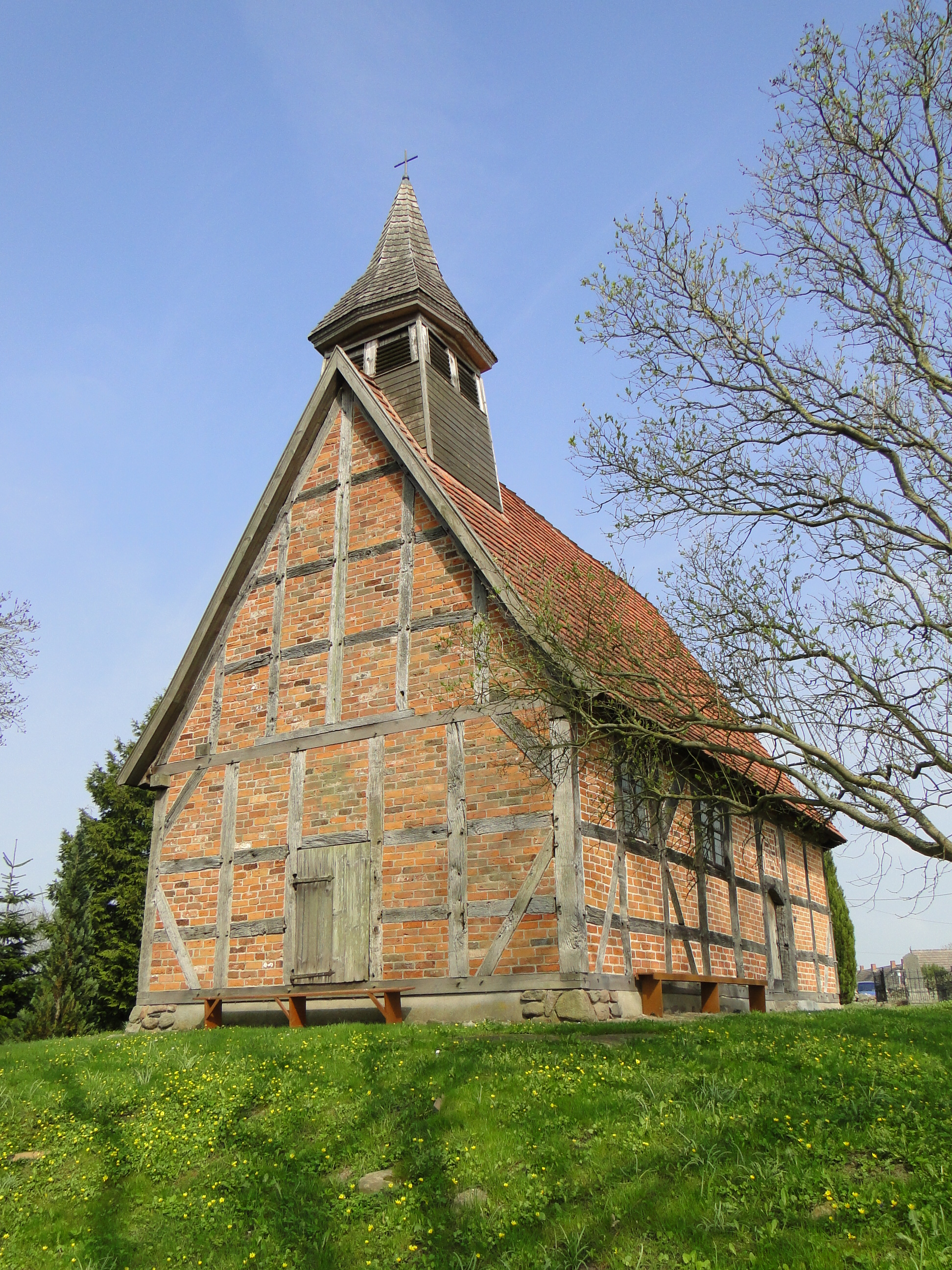 Church in Zaschendorf, district Ludwigslust-Parchim, Mecklenburg-Vorpommern, Germany